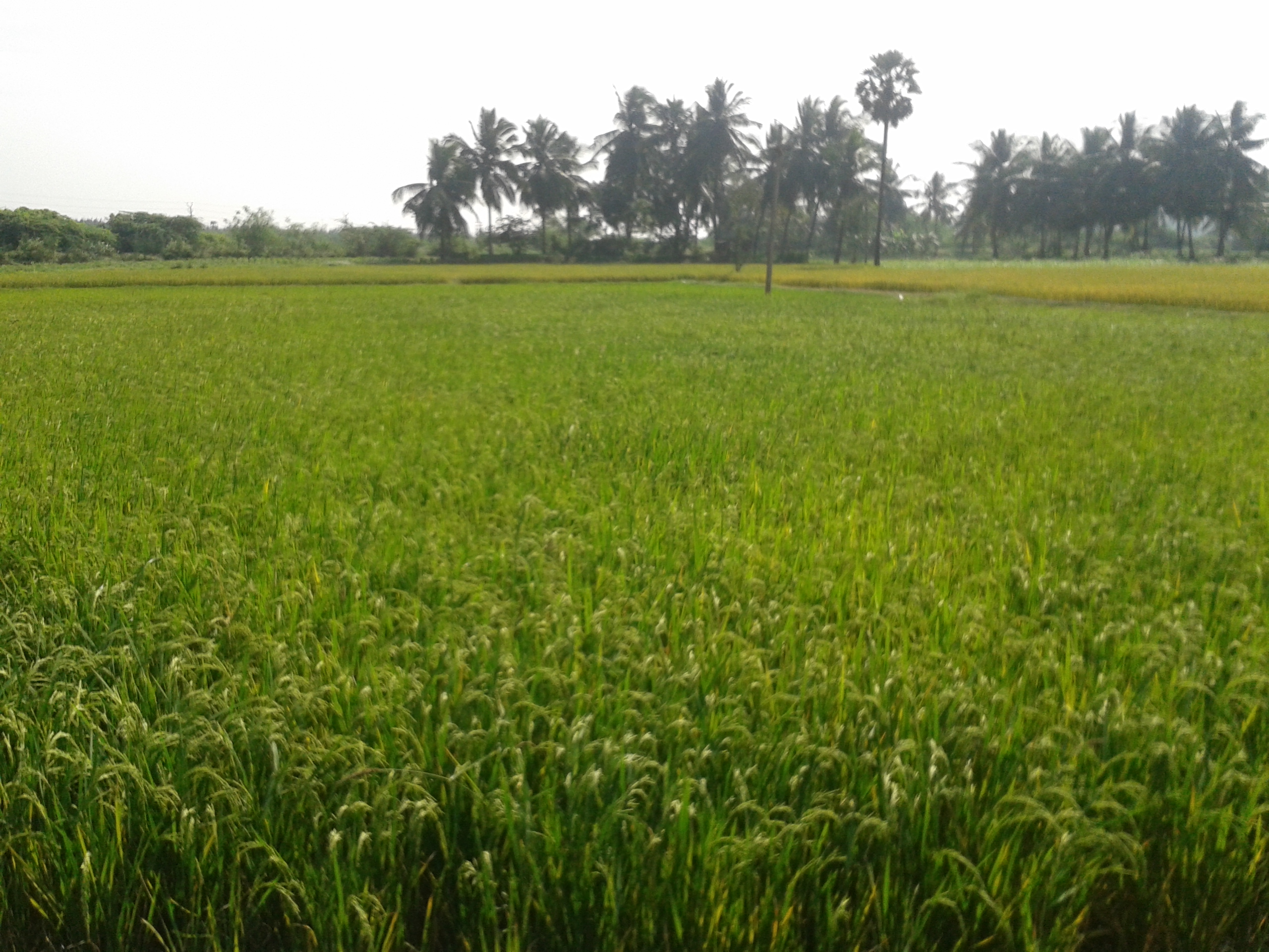 Paddy Fields at Swayambhuvaram, Visakhapatnam district